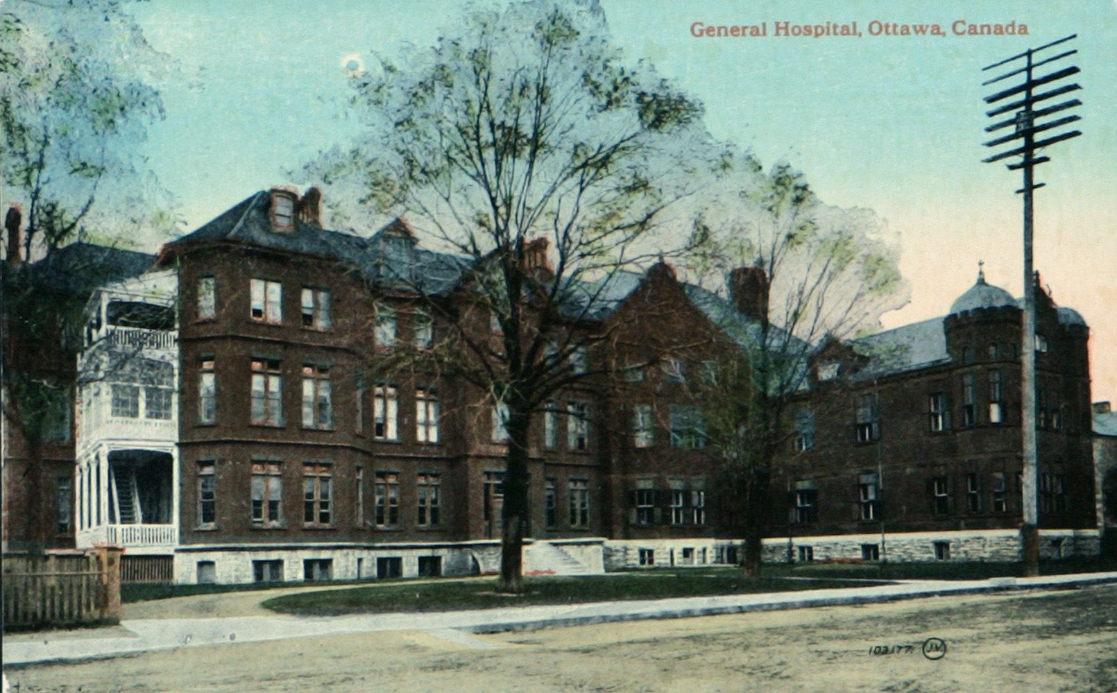 A postcard of the General Hospital on Rideau Street in Ottawa, Canada. Constructed in 1897 as the Carleton County Protestant General Hospital, the building served as a hospital until 1924. Over the years, it also served as a seminary, a barracks, an armoury and veterans' housing. In the late 1990s, the building was renovated as loft residences and is now known as Wallis House.